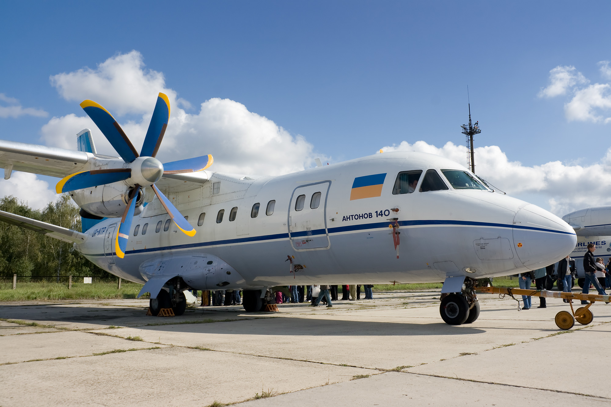 Antonov An-140